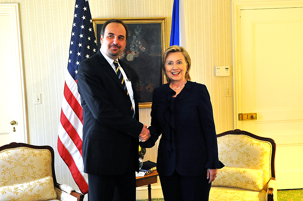 U.S. Secretary of State Hillary Rodham Clinton meets with Czech Republic Foreign Minister Jan Kohout at the Waldorf Astoria hotel during the 64th Session of the UN General Assembly in New York City, New York September 21, 2009.